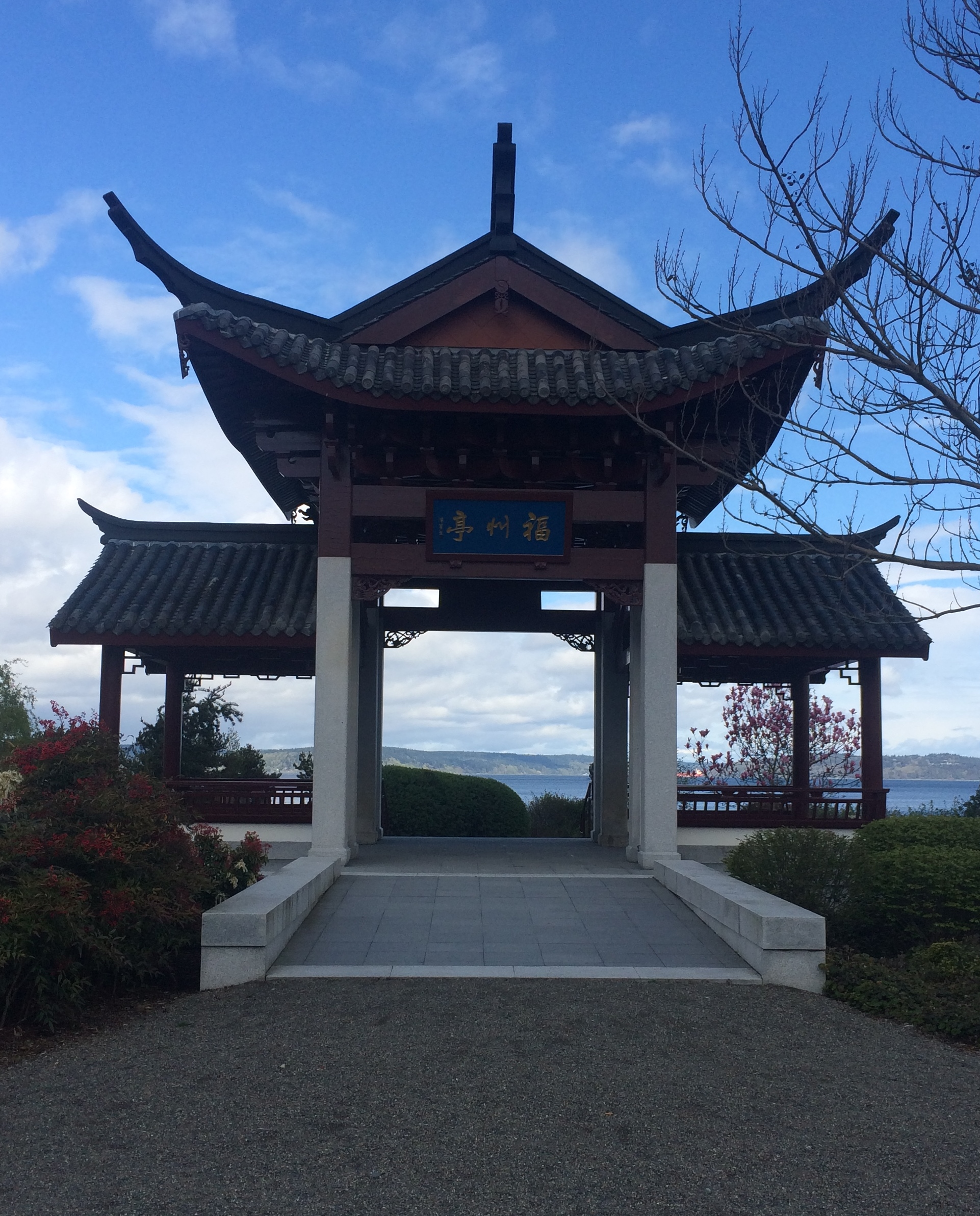 A picture of the Fuzhou ting at the Chinese Reconciliation Park.